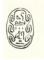 Drawing of a scarab of the hyksos ruler Semqen: "Heqa-Khasut Semqen" - "Lord of foreign lands (Hyksos), Semqen". Brown steatite from Tell el-Yahudiyeh. Reign of Semqen, 16th dynasty, Second Intermediate Period. This scarabs is the only attestation for this ruler, and was part of the Fraser collection [ref: Fraser, G.W. (1900), A catalogue of scarabs belonging to George Fraser, n. 179], while it is currently in a private collection [ref:Tufnell, Olga (1984), Studies on Scarab Seals Vol. 2, Aris & Phillips, see seal num. 3463 and pl. LXII, p. 382.]